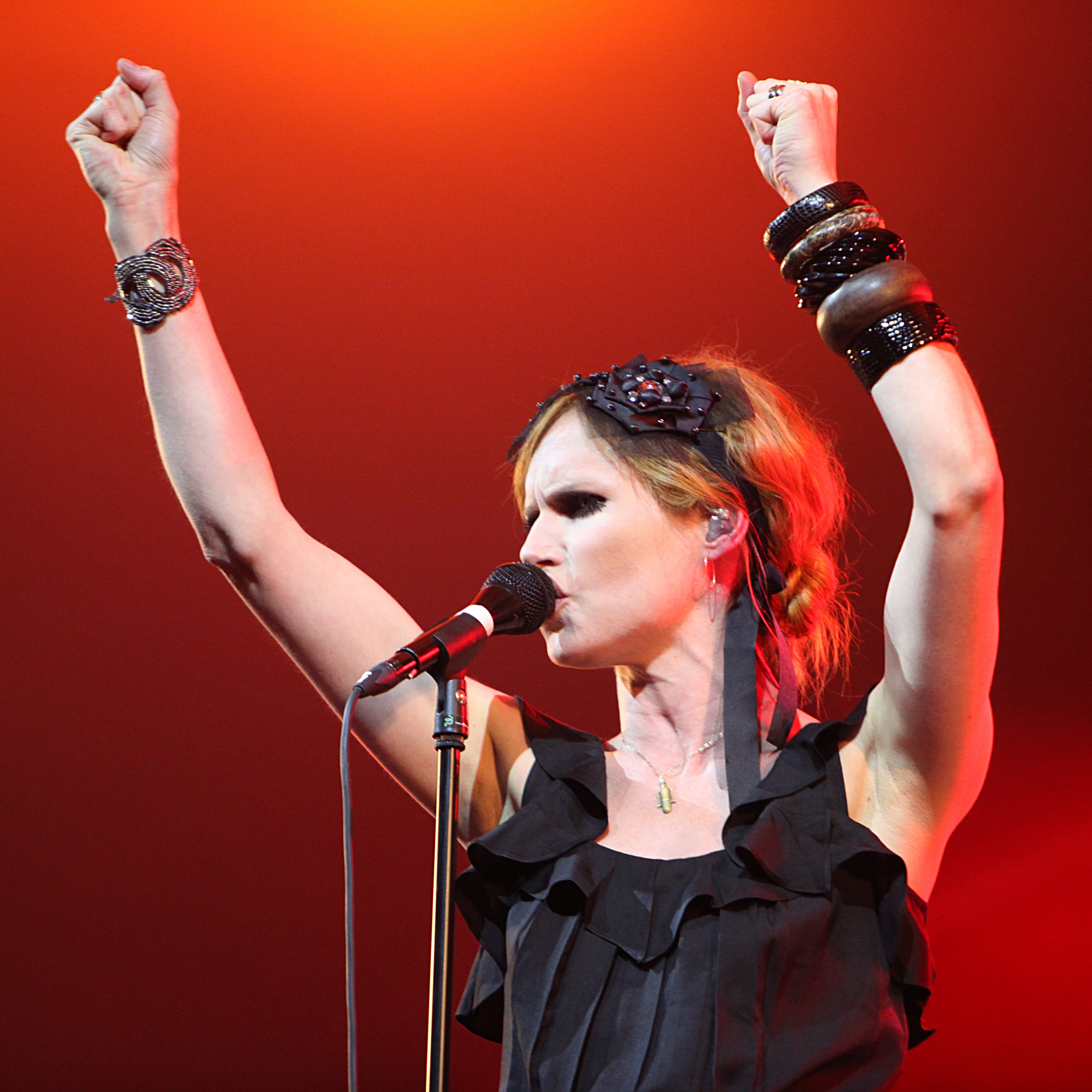 Nina Persson during a concert with her band A Camp, Stockholm Pride Festival, 2009